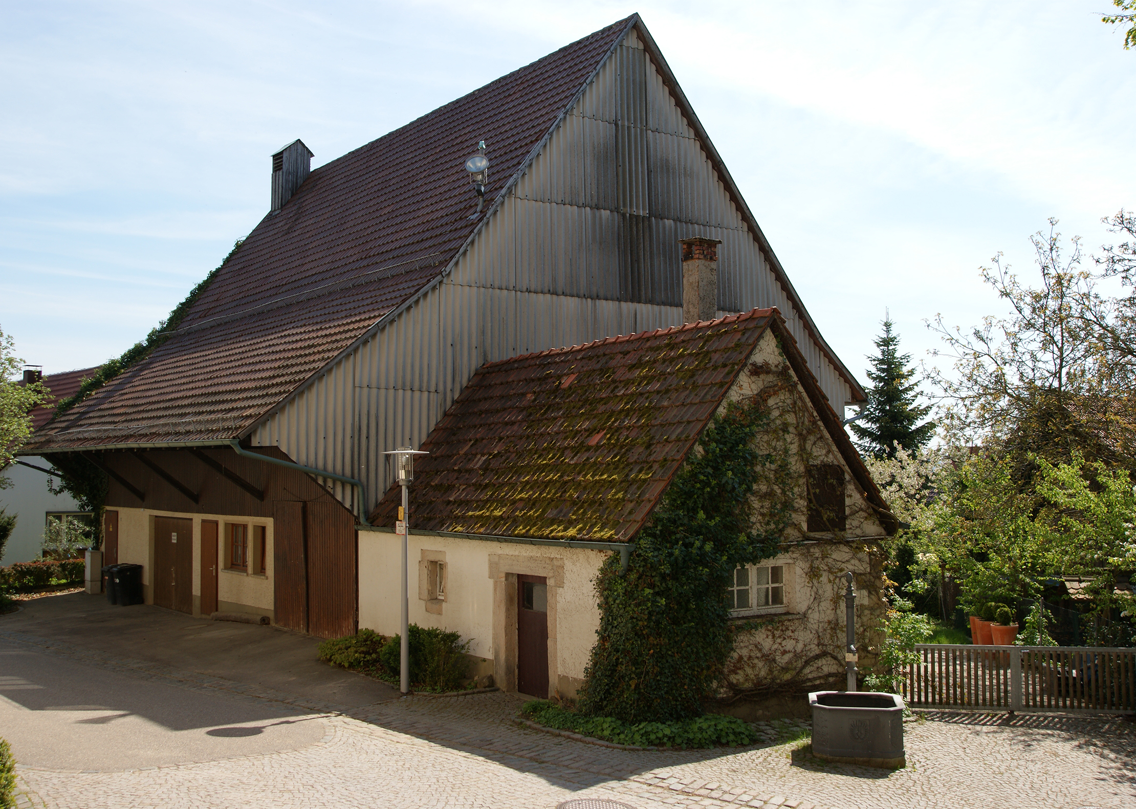 Old style barn with well.